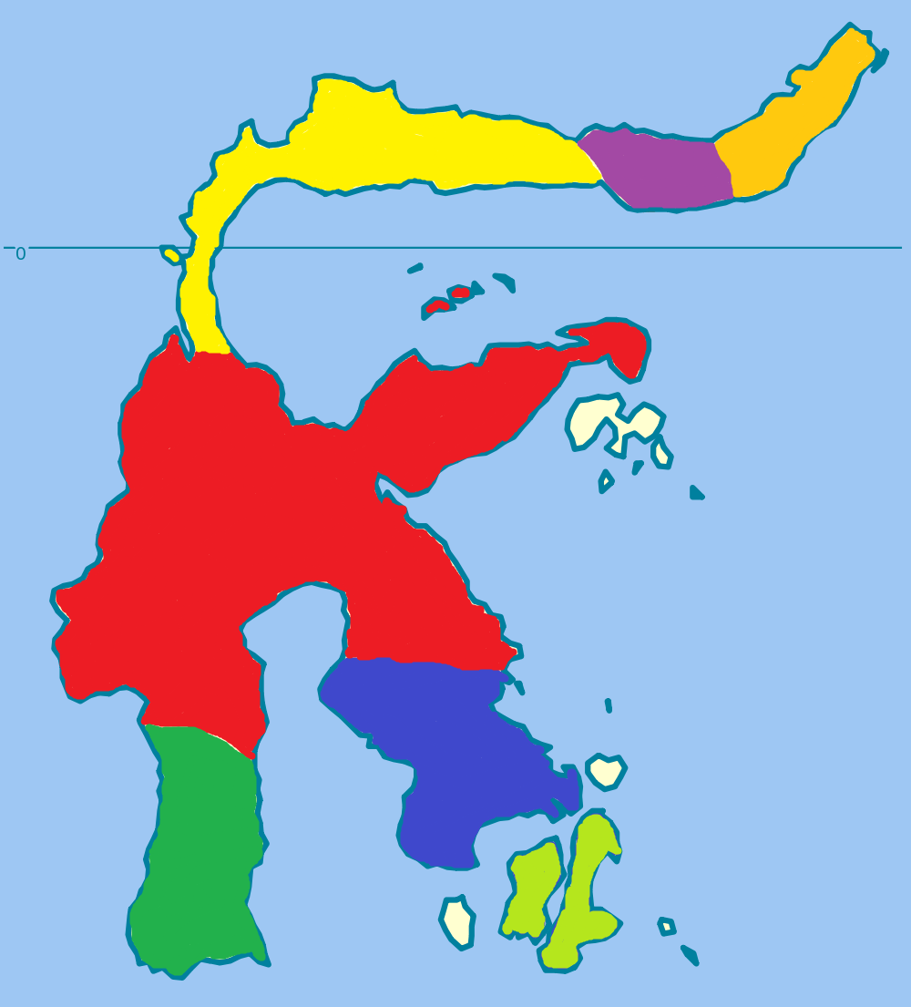 Distribution of the macaques of Sulawesi